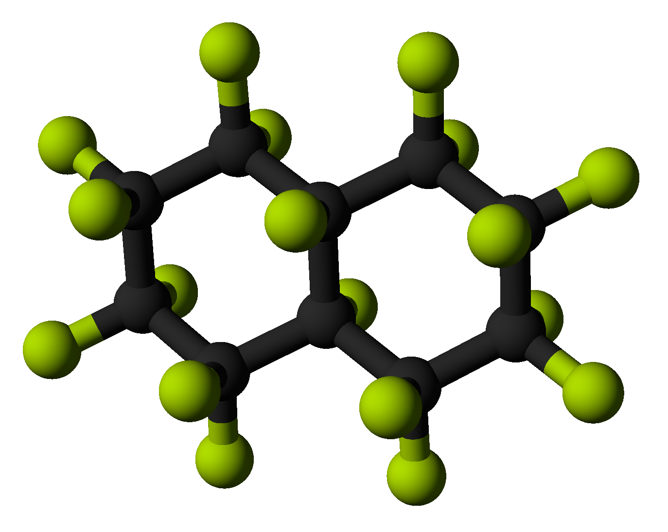 The structure of the trans-perfluorodecalin molecule